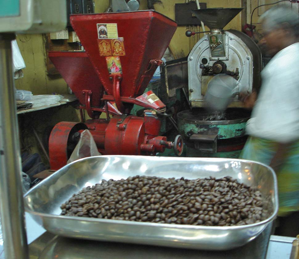 Chennai is famous for its filter coffee, and many shops like this grind fresh coffee powder.